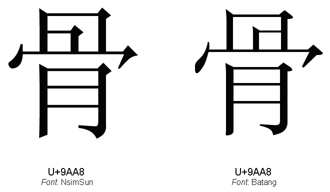 Image of Radical 188 骨 with different fonts ⻣ (U+2EE3) is a mainland variation of 骨 (U+9AA8)